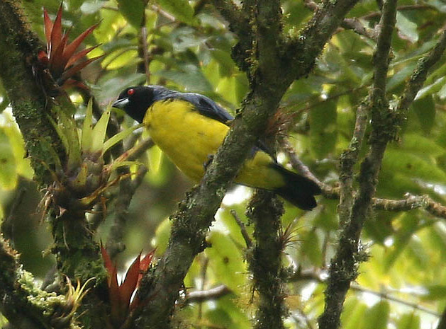 Hooded Mountain-tanager (Buthraupis montana) in a subtropical cloudforest tree in Old Nono-Mindo Rd, NW Ecuador.